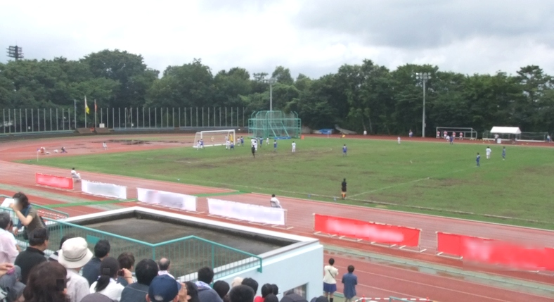 OKURA_stadium_frommainstand